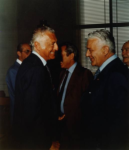 Bruno Beccaria with Gianni Agnelli in 1977 during the investiture ceremony of the Ordine al Merito del Lavoro (Order of Merit for Labour)